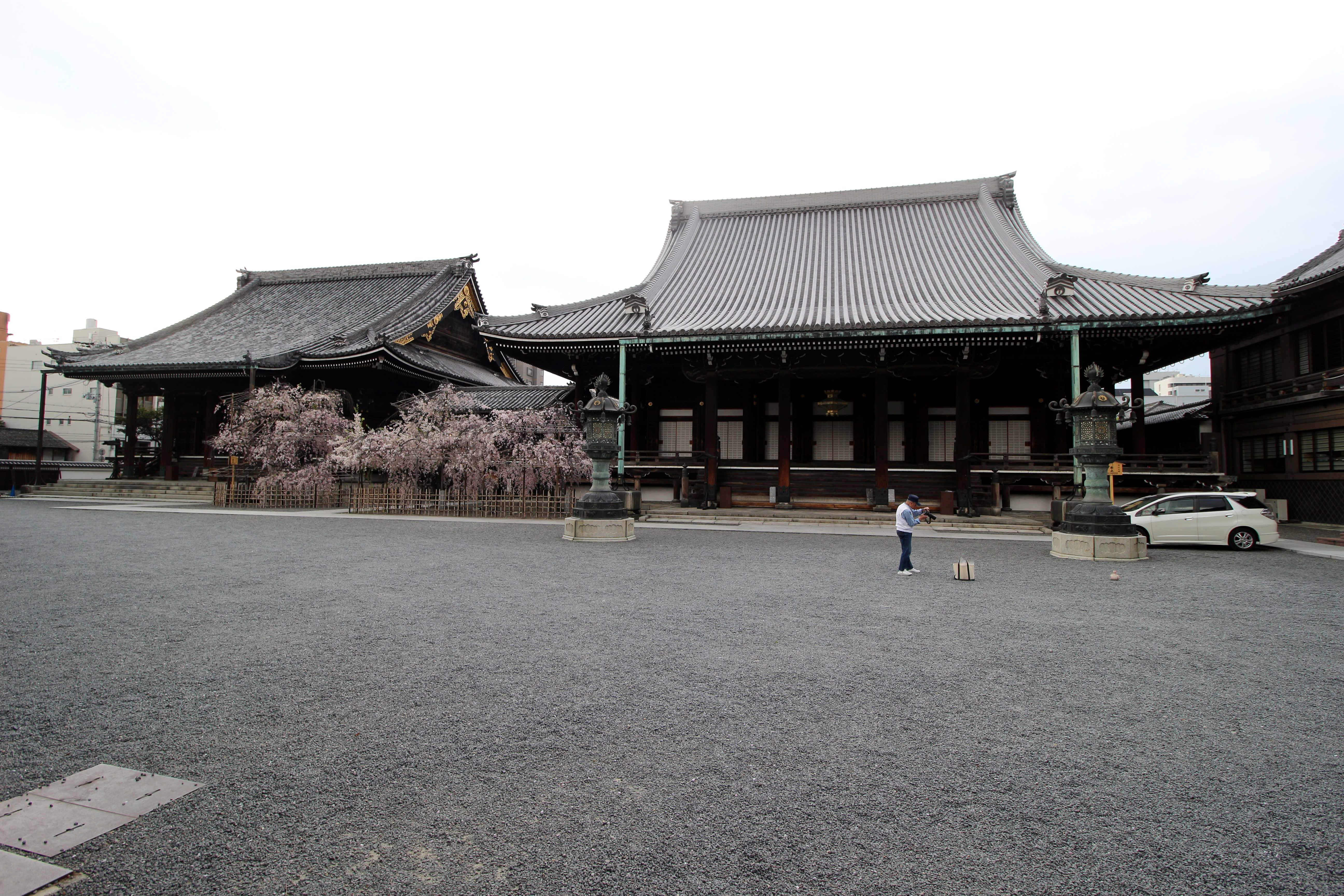 Bukkō-ji in Kyoto, Japan.